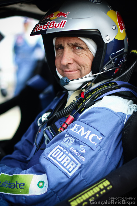 Mark Miller in the Volkswagen Race Touareg. October, 2010